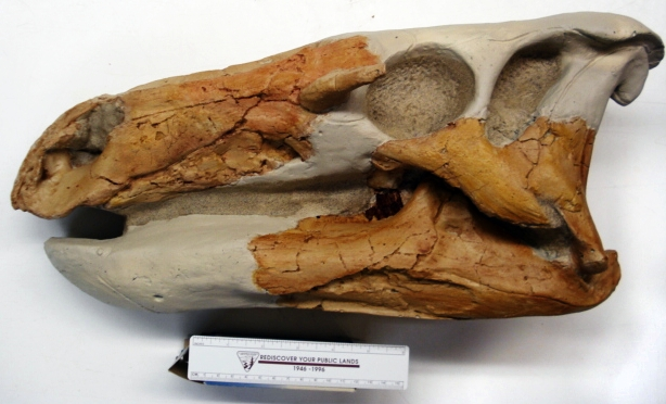 Skull of Theiophytalia kerri, an advanced iguanodontid ornithopod